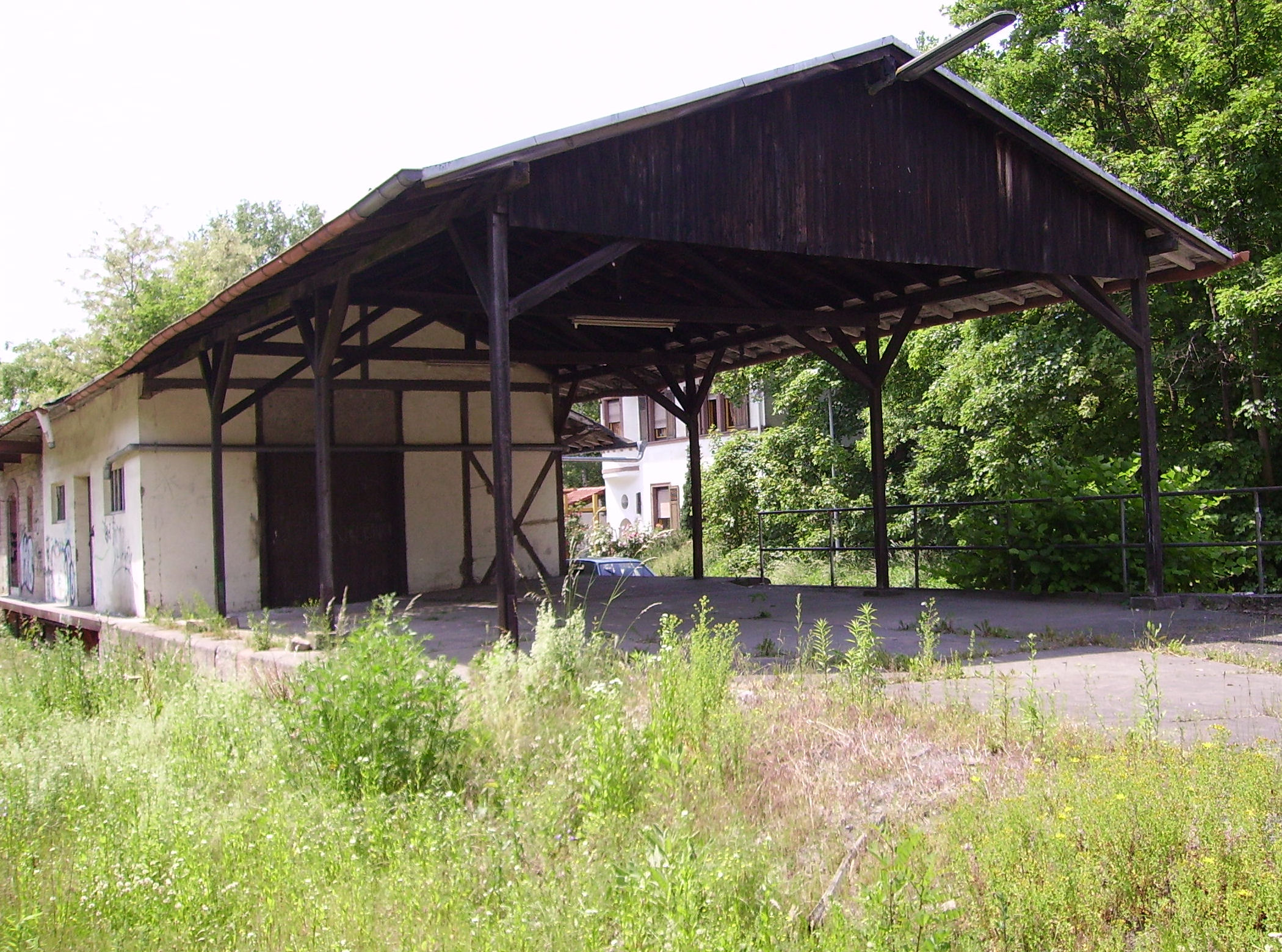 sights of Eisenberg, Germany